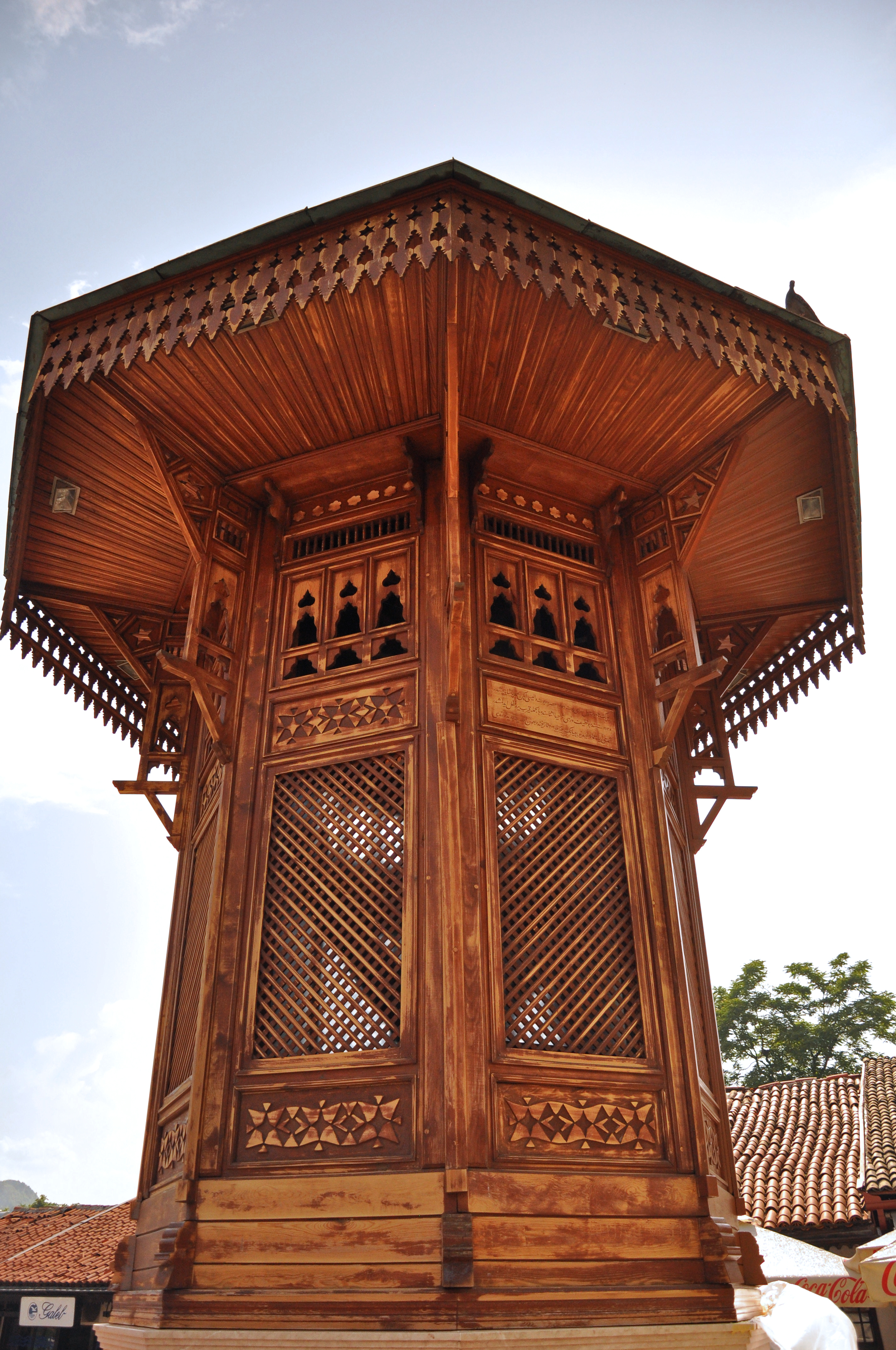 If you take a drink from the public fountain (Sebilj), according to local legend, you won’t stay away for long. Constructed in 1891, it’s the only structure of its kind in Sarajevo. The Sebilj Fountain that was built in 1754 was located a little further down the street and was destroyed in a fire in 1852. Sebilj Square was the center of life during Ottoman rule from the 1440s until the empire collapsed here in 1878.